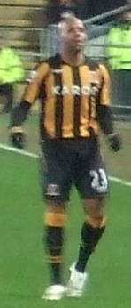 Marlon King